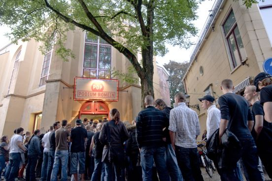 Poppodium Romein in Leeuwarden